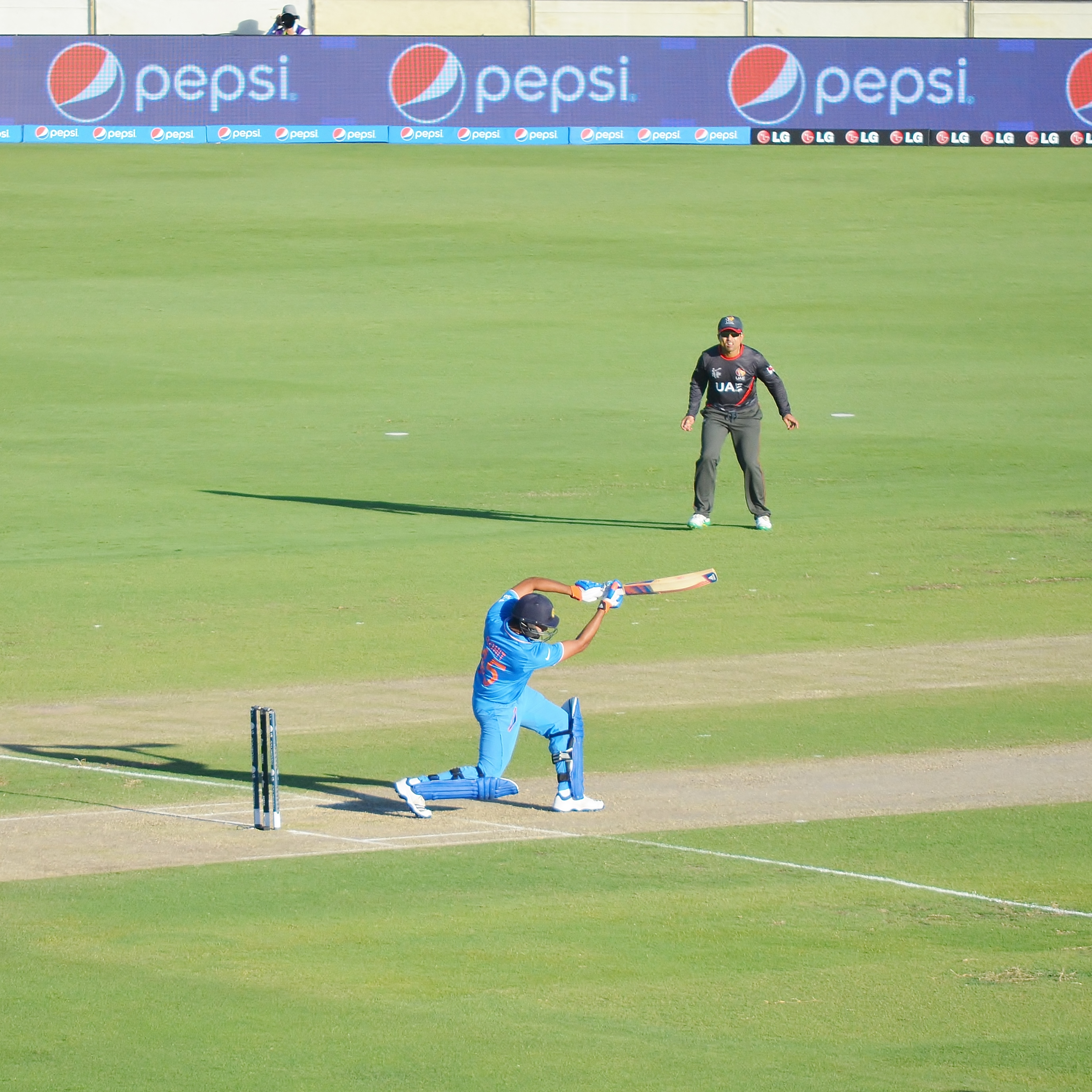 Rohit Sharma batting for India against United Arab Emirates during their 2015 Cricket World Cup match at the WACA Ground in Perth, Australia.